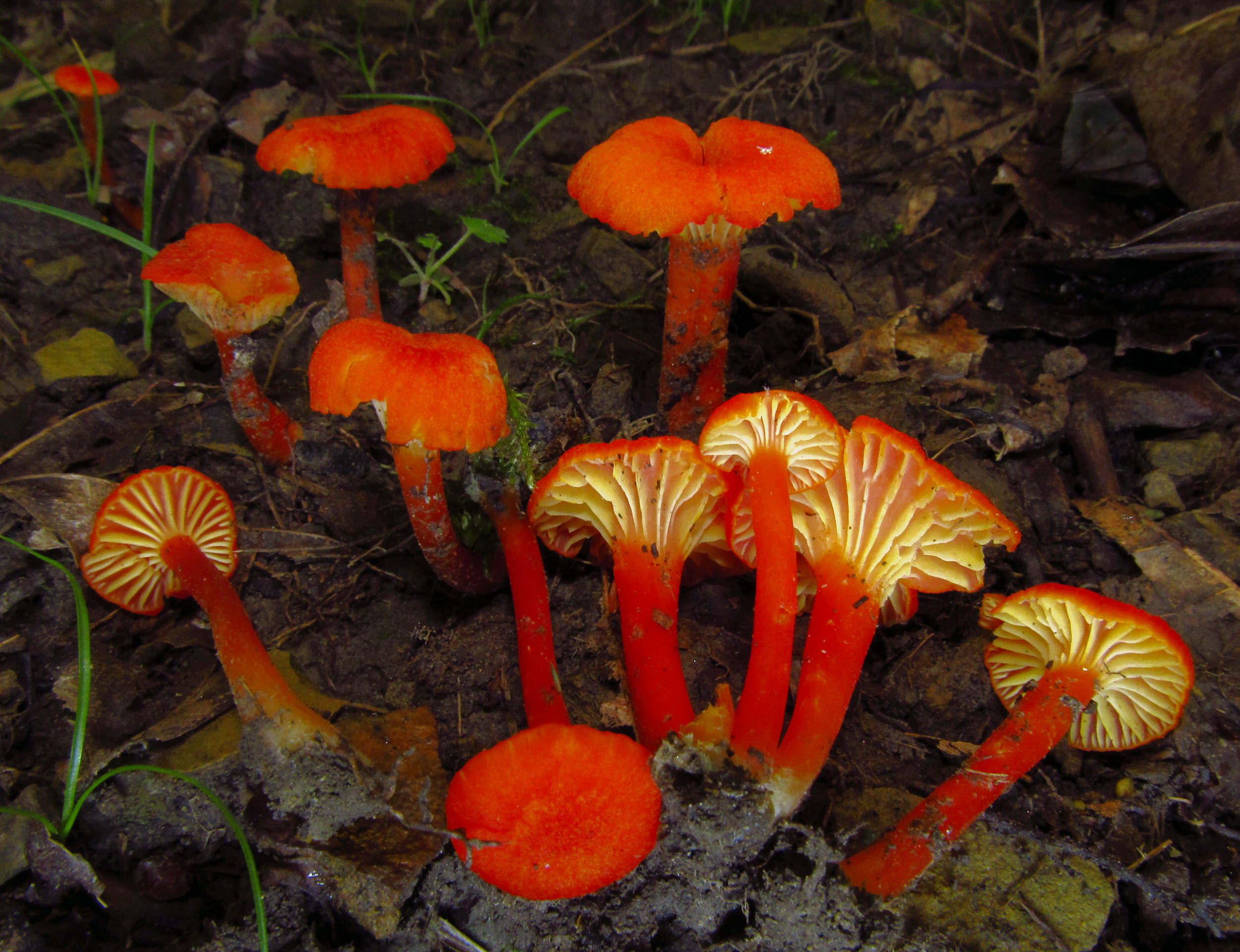 Hygrocybe cantharellus Location: Wayne National Forest, Athens Co., Ohio, USA For more information about this, see the observation page at Mushroom Observer.